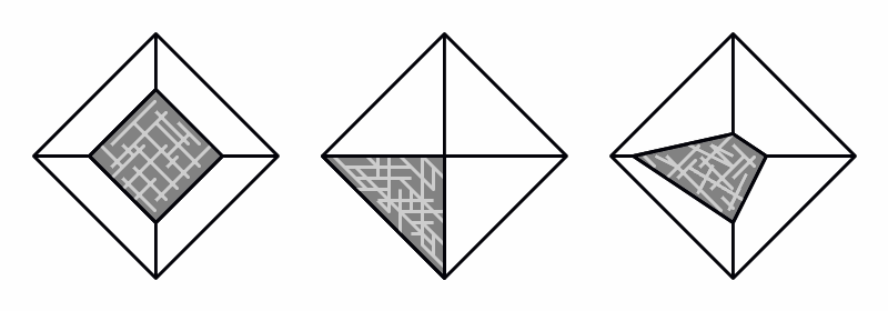 Different cuts of the octaedron produces different kinds of Widmanstätten patterns